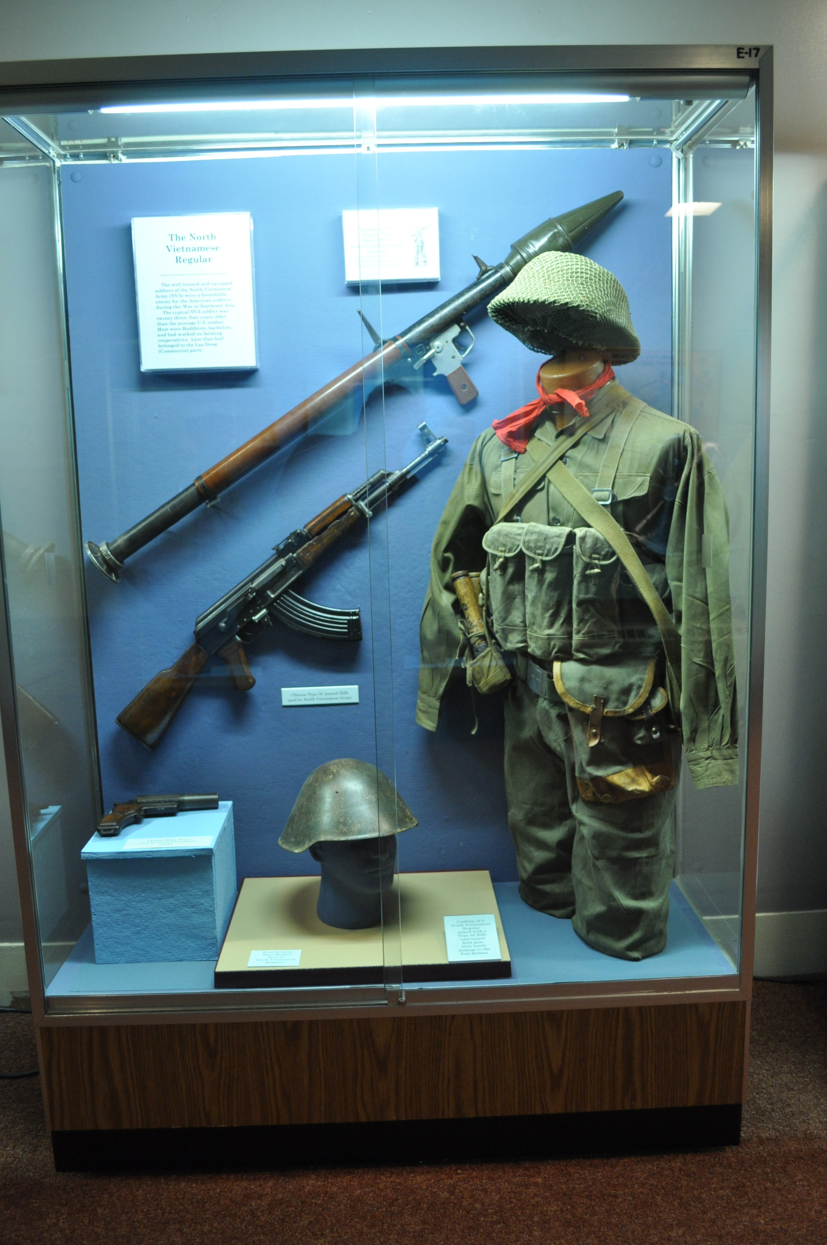 Exhibit: the North Vietnamese Regular, Fort Lewis Military Museum, Fort Lewis, Washington, USA. Focused on the period of the U.S. War in Vietnam.